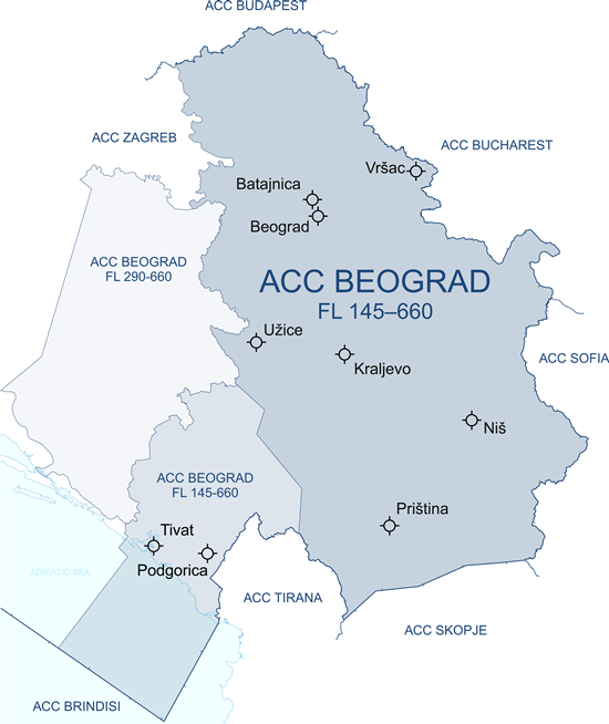 SMATSA llc`s area of responsibility comprises nine aerodromes (6 civil and 3 military): Nikola Tesla Airport (Belgrade), Podgorica Airport (Podgorica), Tivat Airport (Tivat), Konstantin Veliki Airport (Niš), Vršac Airport (Vršac), Ponikve Airport (Užice), Lađevci Airport (Kraljevo), Batajnica Airport (Belgrade), and Priština Airport (Priština).